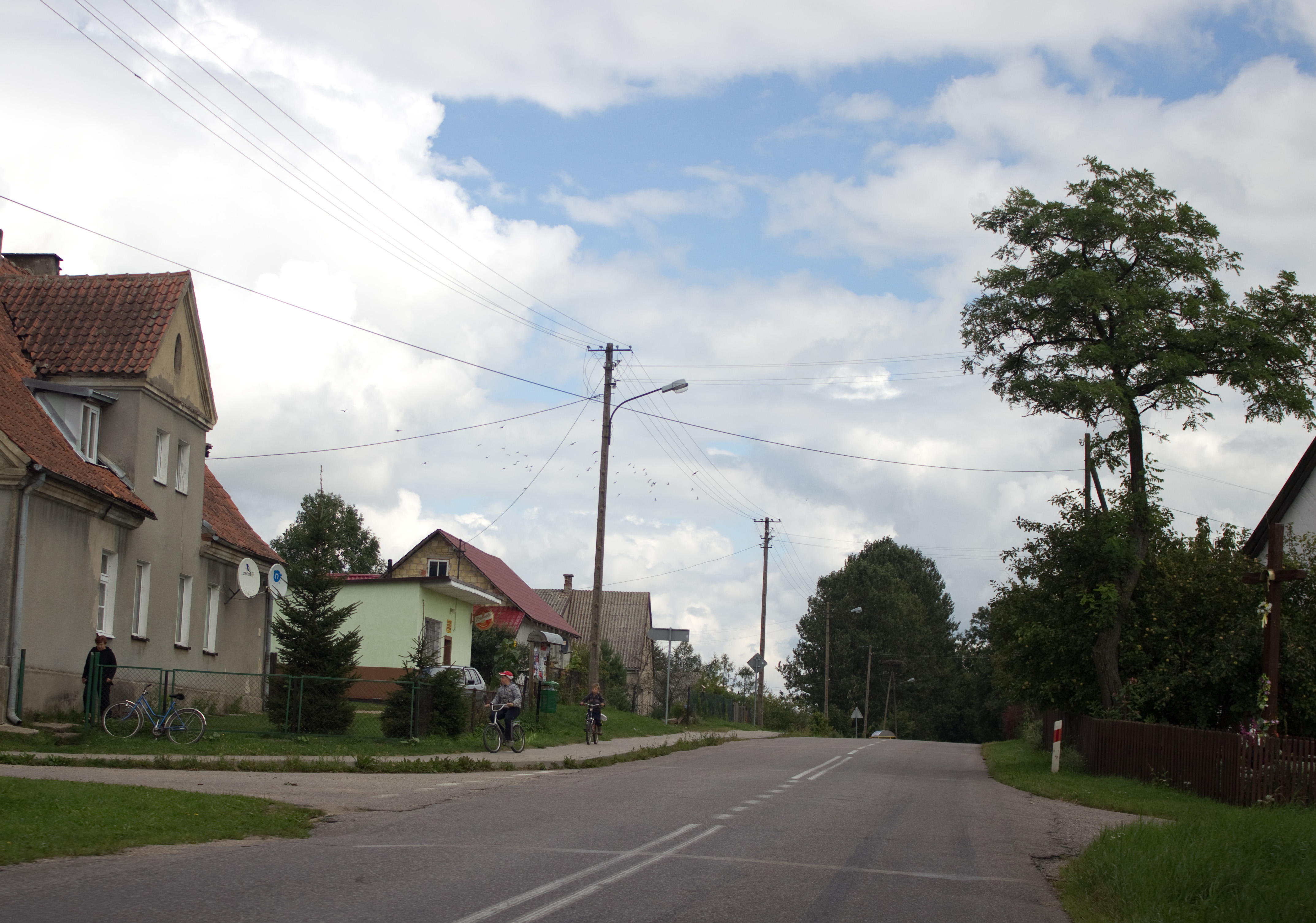 Sobole, gmina Wieliczki, powiat olecki, Warmian-Masurian Voivodeship